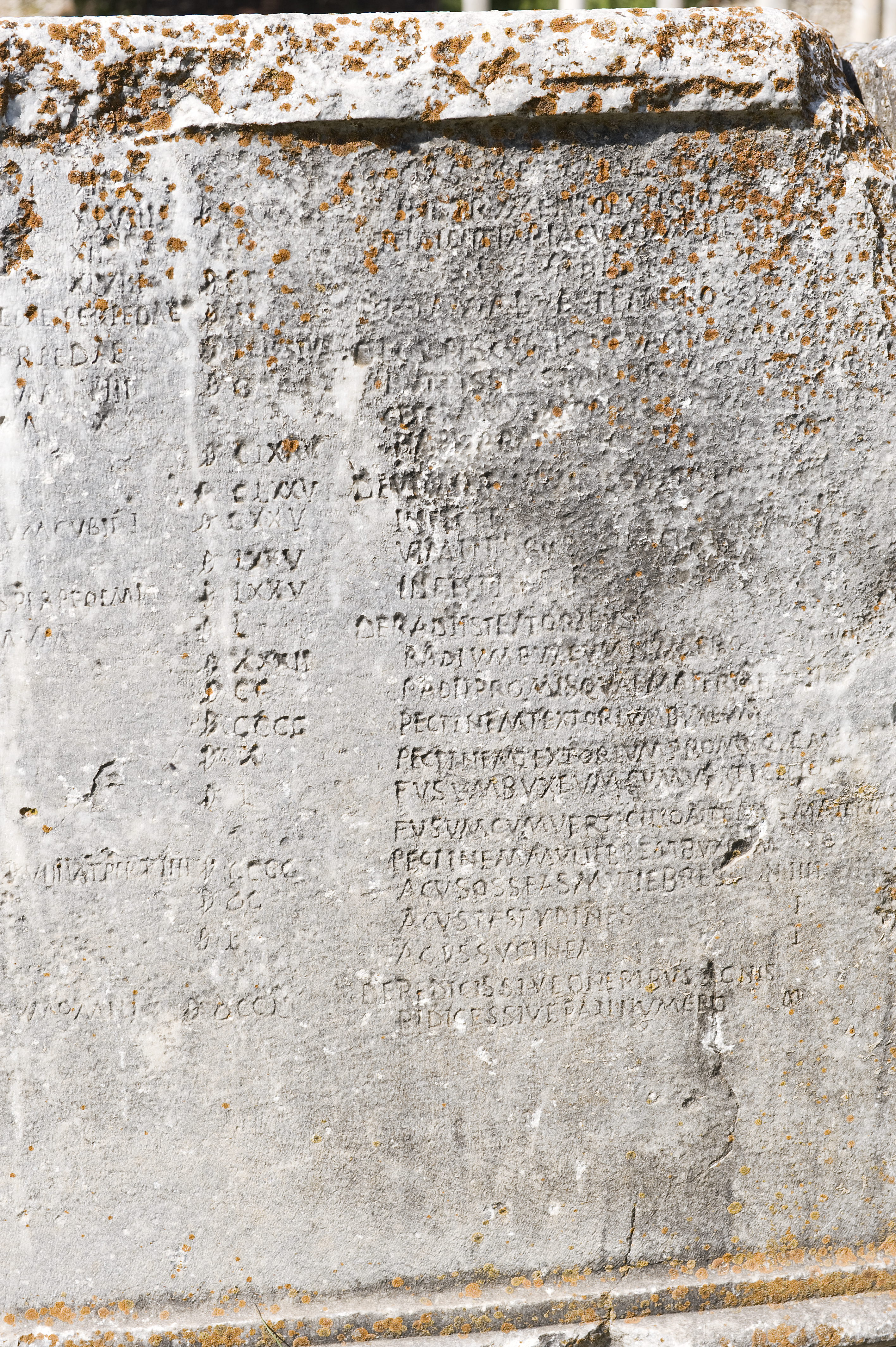 Probably as a macellum (food market) a round structure was built in the second half of the second century AD. A pricelist from the 4th century on its sides, put there on orders of Emperor Diocletian to fight inflation. All prices of the commodities sold on markets throughout the empire were indicated. A strong male slave would go for 30.000 dinar, twice the amount for a donkey. Nowadays this list is seen as an indication the market held the first “exchange commodity” or “borsa” (comp. Fr. Bourse).